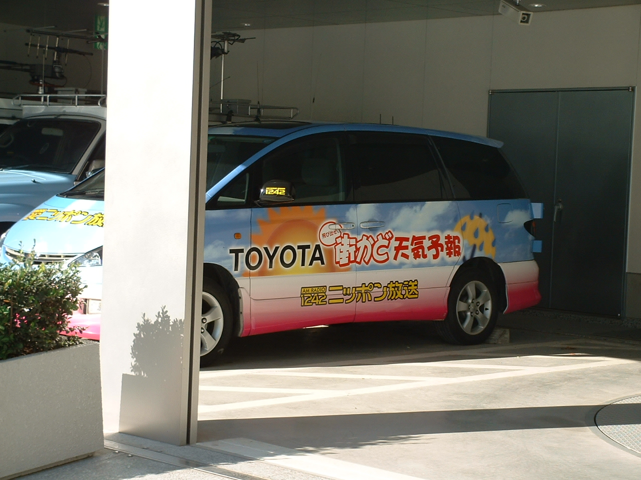 The weather report car owned by Nippon Broadcasting System,Inc at Japan. Car model: Toyota Previa.